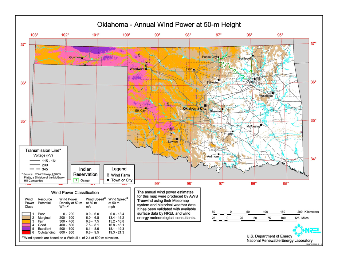 Average annual wind power distribution for Oklahoma, 50m height above ground, also showing location of existing electrical transmission lines